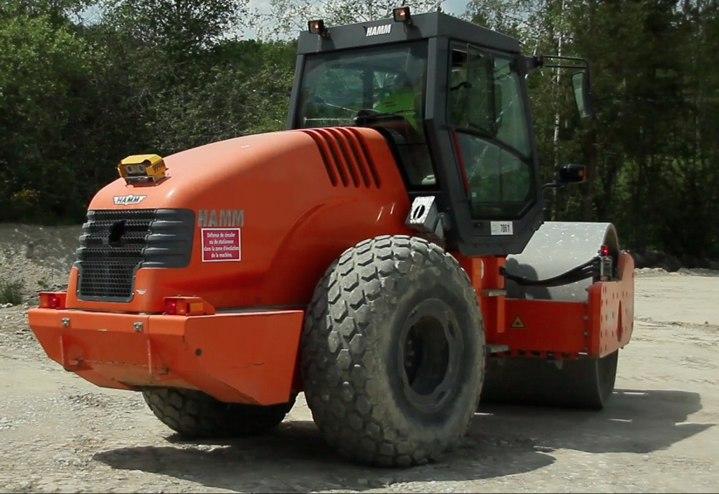 Hamm Comptactor